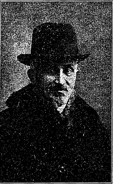 Rav Sinai Schiffer, rabbi of the Karlsruhe orthodox Israelitische Religionsgesellschaft (1900/1905)